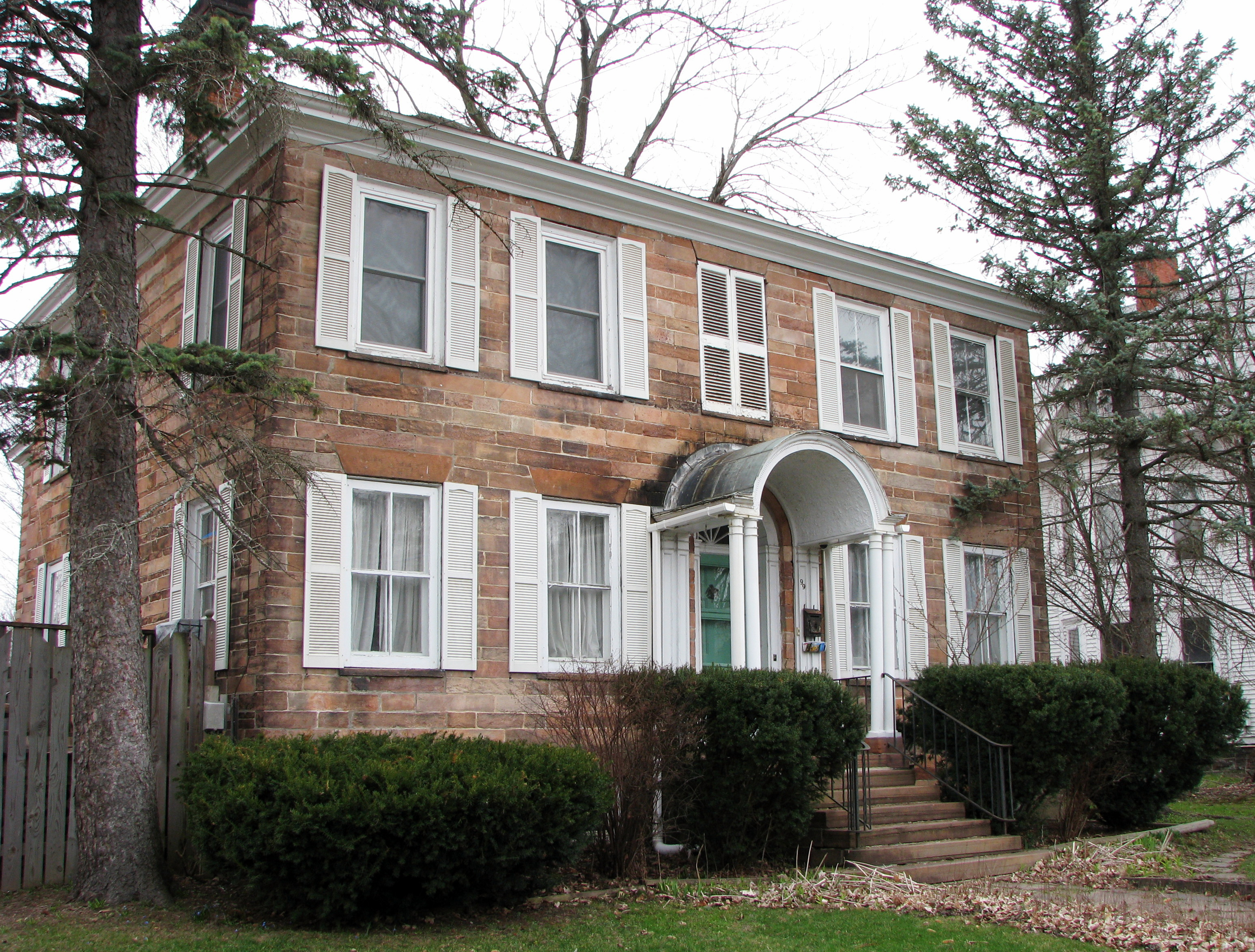 Jonathan Wallace House, 99 Market Street, Potsdam, New York